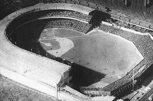 The Polo Grounds, the way it looked after 1911 resurrection and before 1923 remodeling.